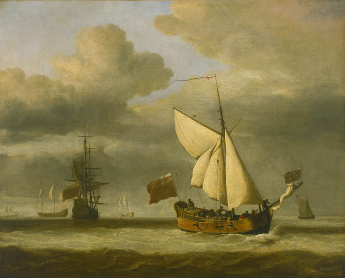 The Royal Escape Close-Hauled in a Breeze. The royal yacht Royal Escape appears in the right foreground, seen from before the starboard beam. She flies a red ensign, jack and the common pendant of a man-of-war at the masthead. A two-decker is visible at anchor in the left background, seen almost in stern view and a little on the starboard quarter. A small sprit-rigged vessel, close-hauled on the port tack, occupies the right background, while several other ships are visible in the distance.